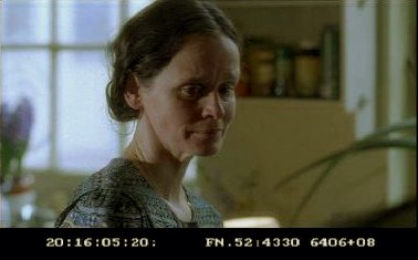 A still from "The Flies", a film I shot. This particular frame was captured and manipulated from a highly-compressed copy created for color grading reference.